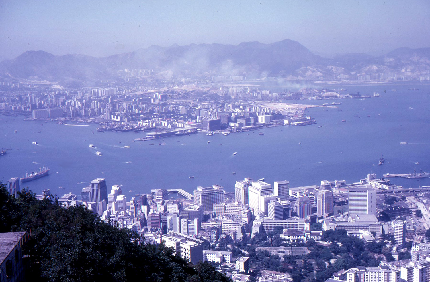 Hong Kong in 1967. Looking from Victoria Peak to the center of Hong Kong, and across the harbor to Kowloon (on the mainland). The Hong Kong Hilton is at the right. The Bank of China, an agency of Red China, is the tall square building just to the left of the Hilton.